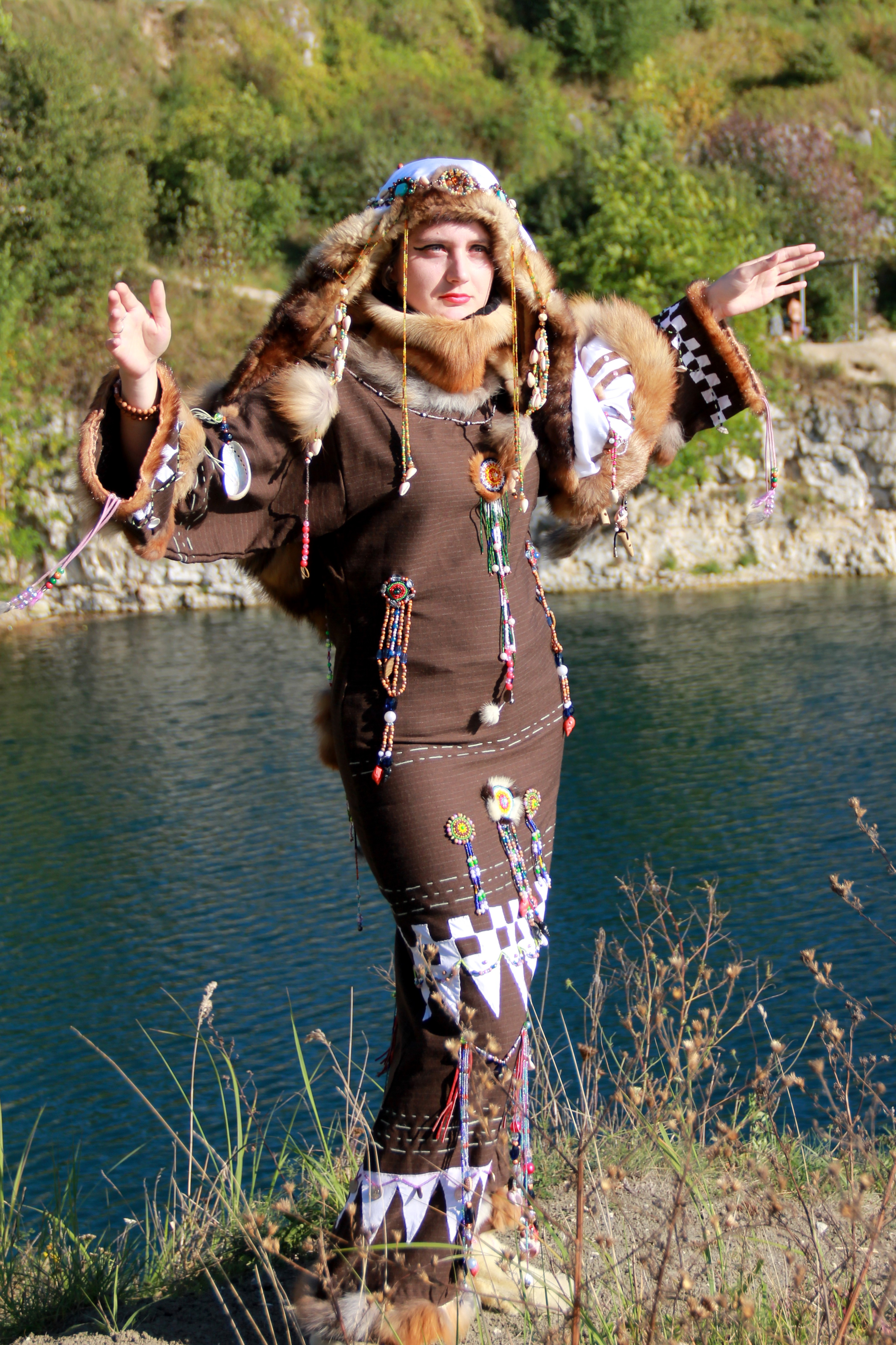 User:Kamczadałka in her own-work Koryak folk costume